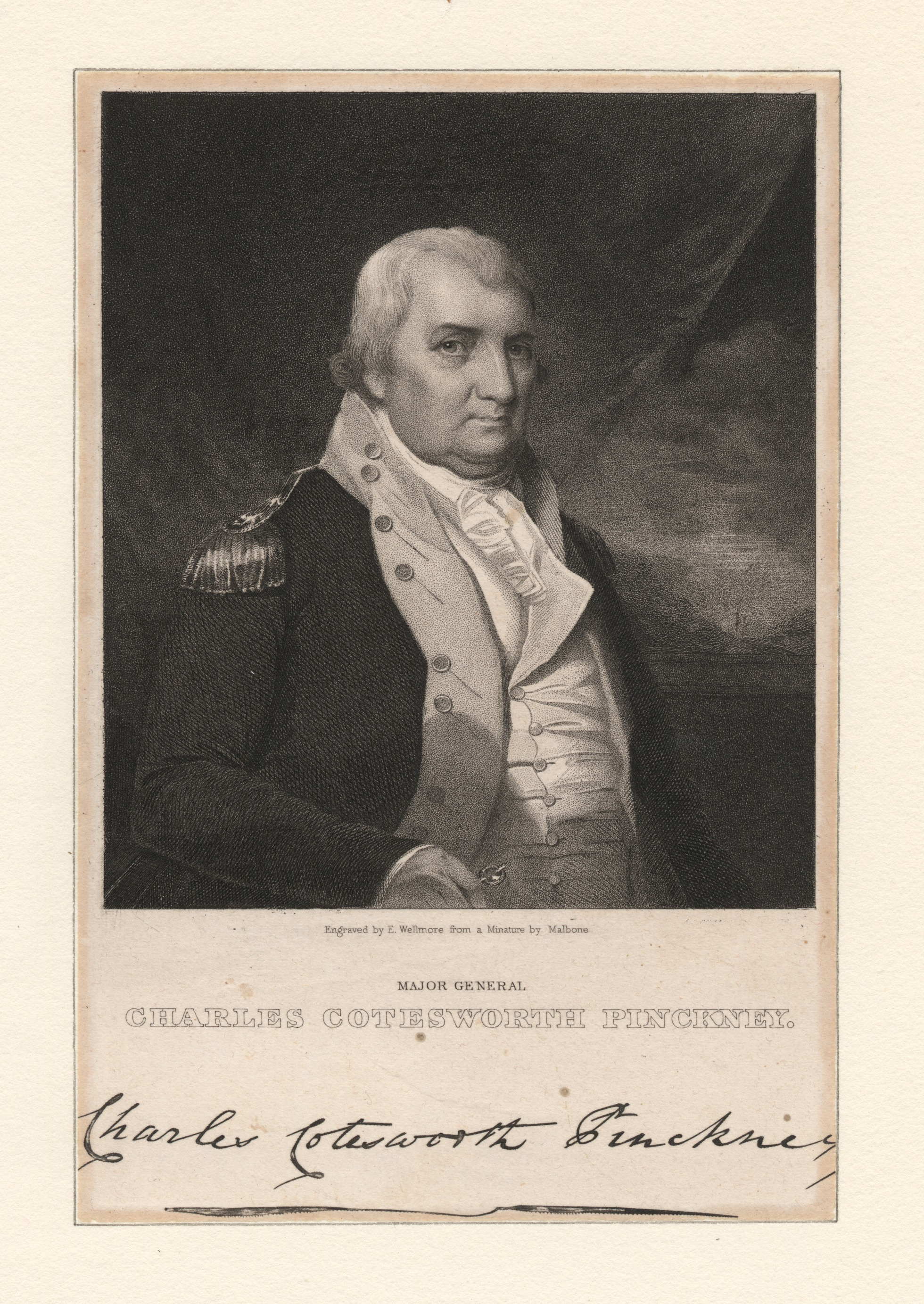 Title from Calendar of Emmet Collection. Citation/reference : EM155